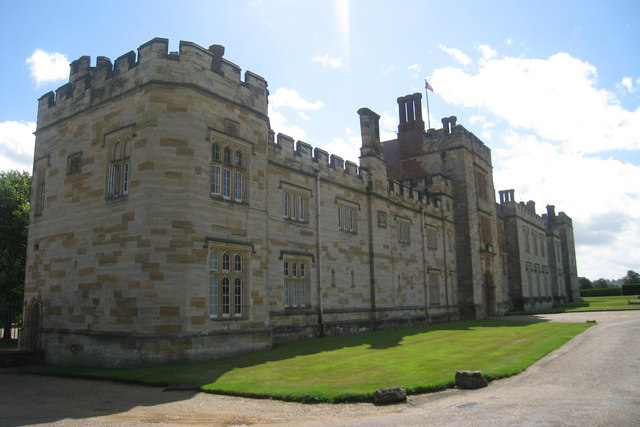 Penshurst Place, Penshurst, Kent